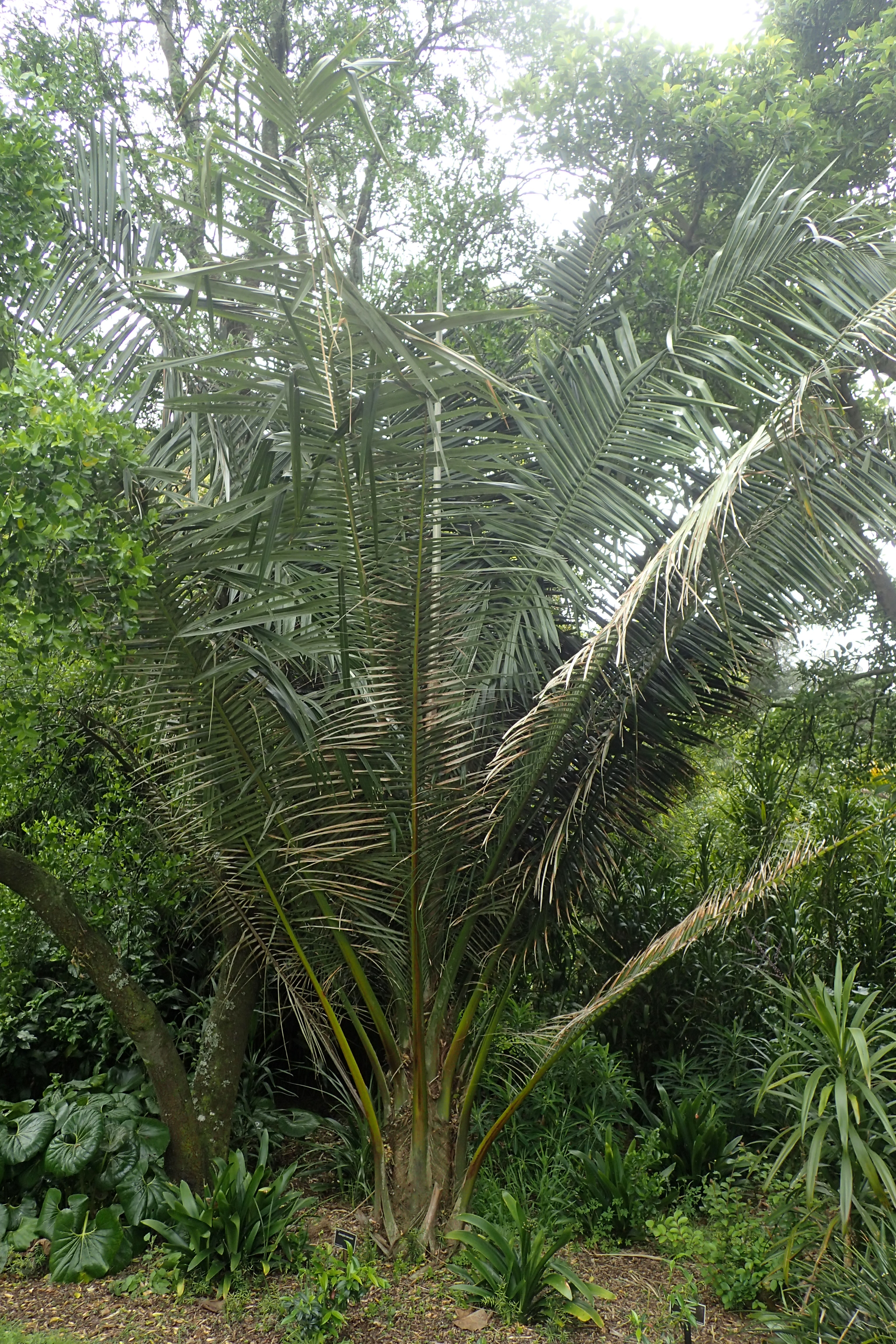 Ceroxylon ceriferum in Auckland Botanic Gardens